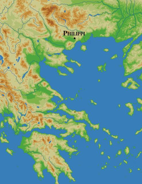 Locator map of Philippi.